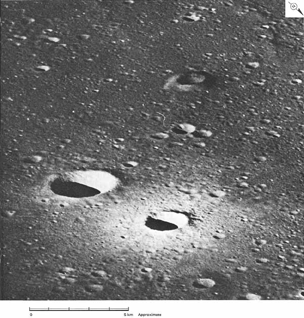 This is an oblique view of an area in Mare Nubium west of the central lunar highlands taken with the Hasselblad camera on Apollo 16. The bright ray-craterlet Lassell D, the common bowl-shaped craterlet Lassell J, and the unusually dark craterlet southwest of Lassell D and J (the so-called Cinder Cone)